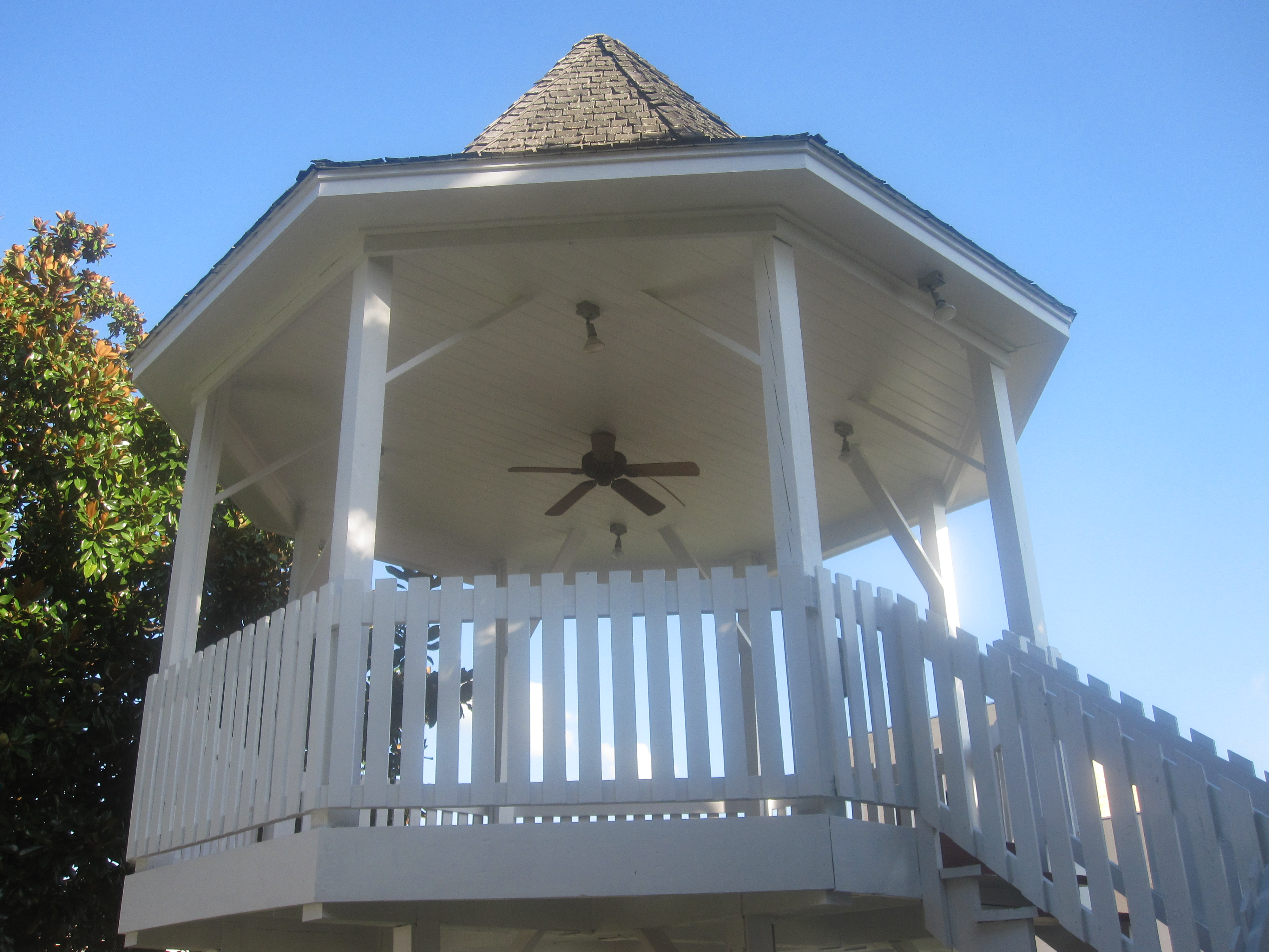 Gazebo at Columbia County Courthouse in Magnolia, AR IMG_2316.JPG